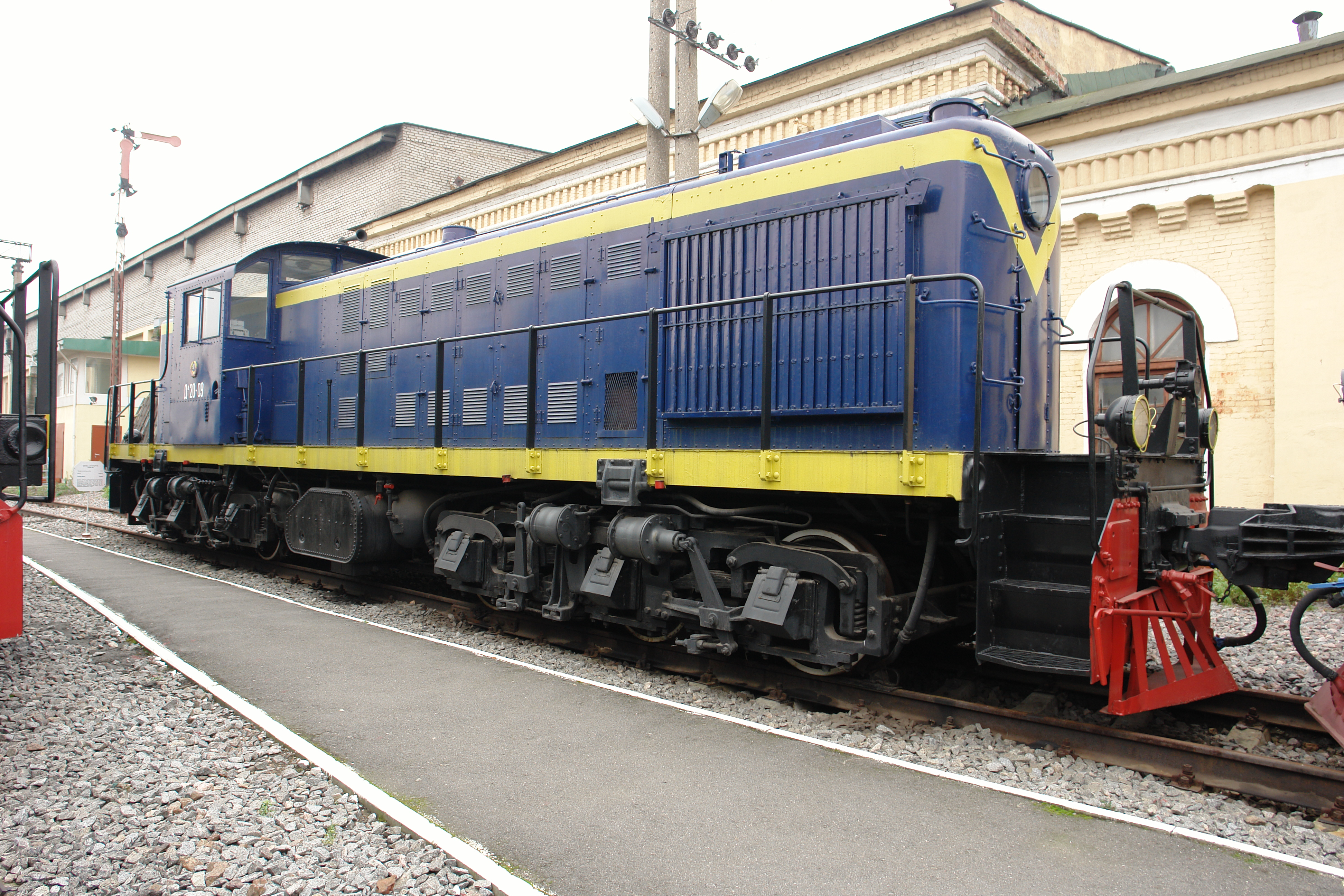 Diesel locomotive DA20-09